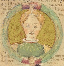 Verde della Scala, wife of Niccolo II d'Este